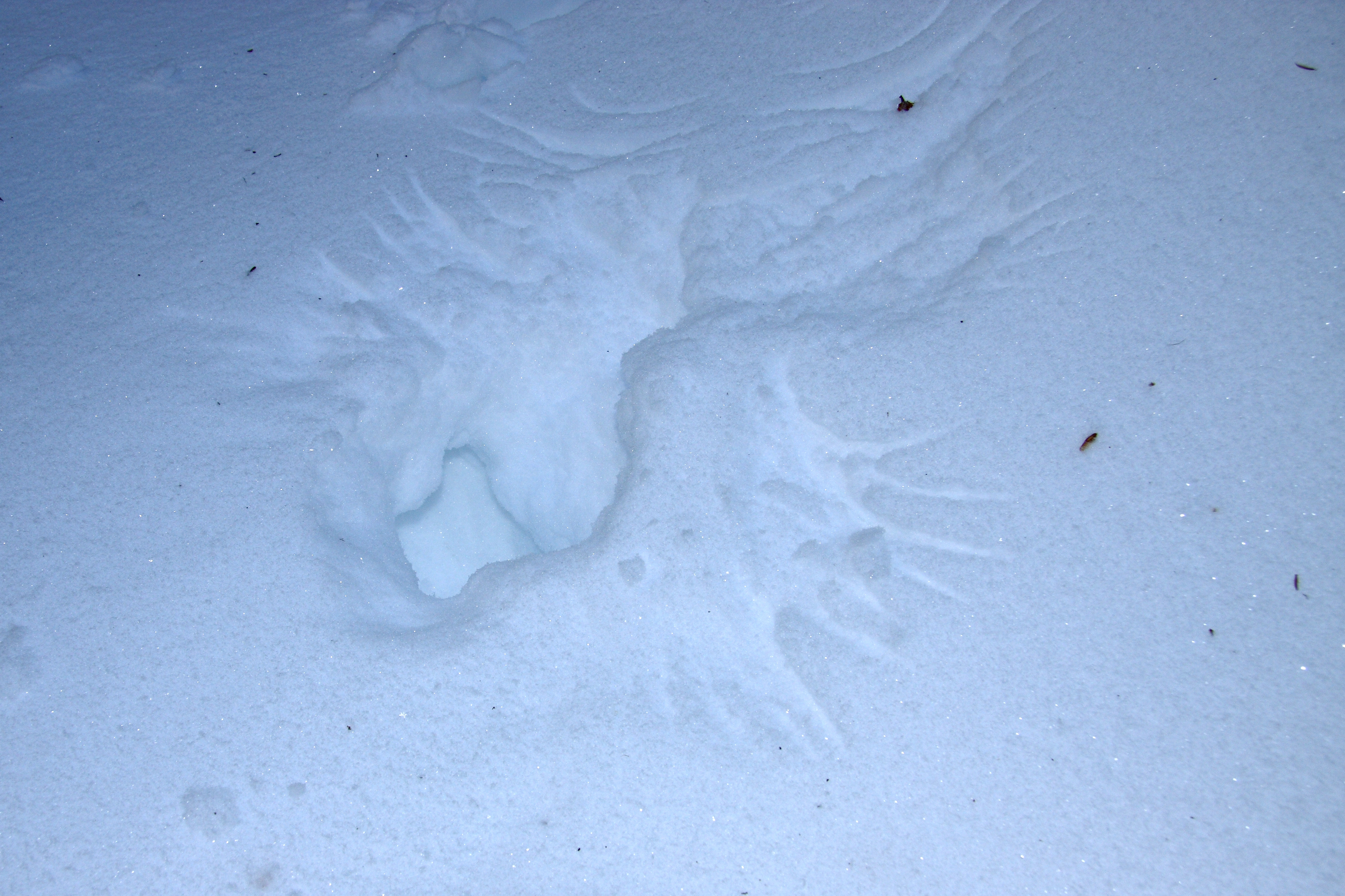 Snow hole and wing tracks of Ruffed Grouse, Jacques-Cartier National Park, Quebec, Canada